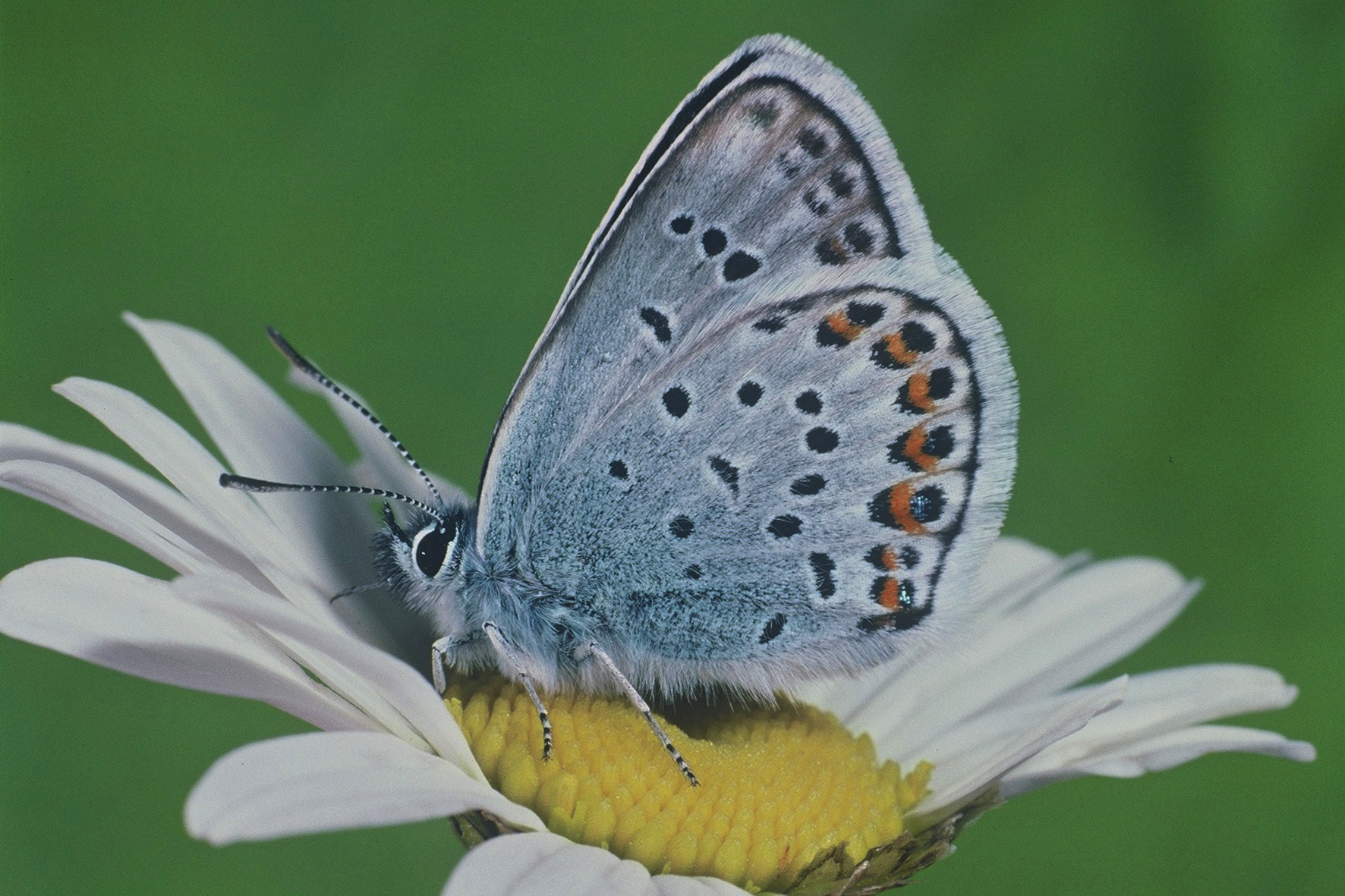 Bottom side of Silver-studded Blue (Plebeius argus)